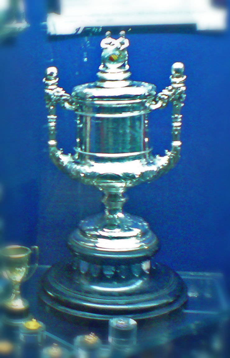 Manchester Senior Cup trophy